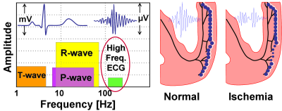 Frequency spectrum and HFQRS physiology